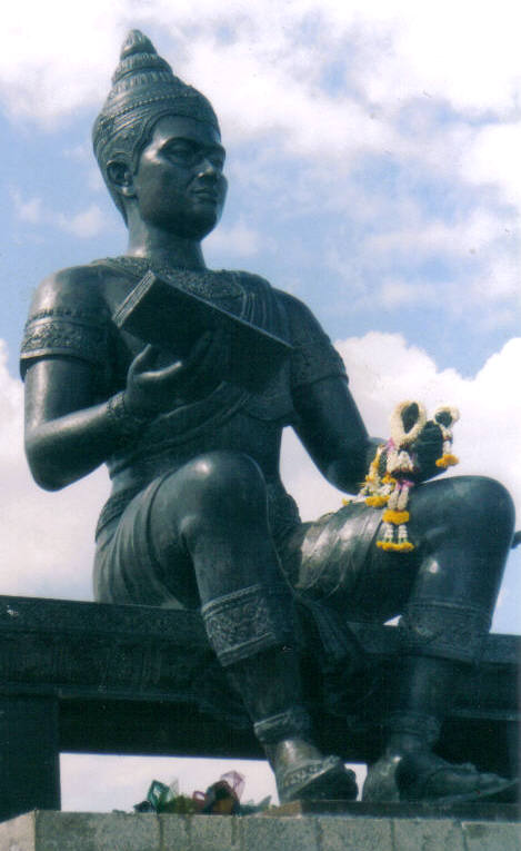 Statue of Ramkhamhaeng the Great, King of Sukhothai Kingdom. Statue located in "Sukhothai Historical Park" in Sukhothai province.